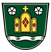 Coat of Arms of Karsbach